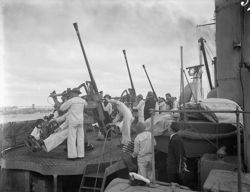 On Board the Greek Cruiser Hhms Giorgios Averoff. 23 February 1943, Port-said, Rear Admiral a Sakellariou, Commander in Chief of the Royal Hellenic Navy Flies His Flag in the Cruiser Hhms Giorgios Averoff. A battery of light A A guns being operated during exercises on board HHMS GIORGIOS AVEROFF.